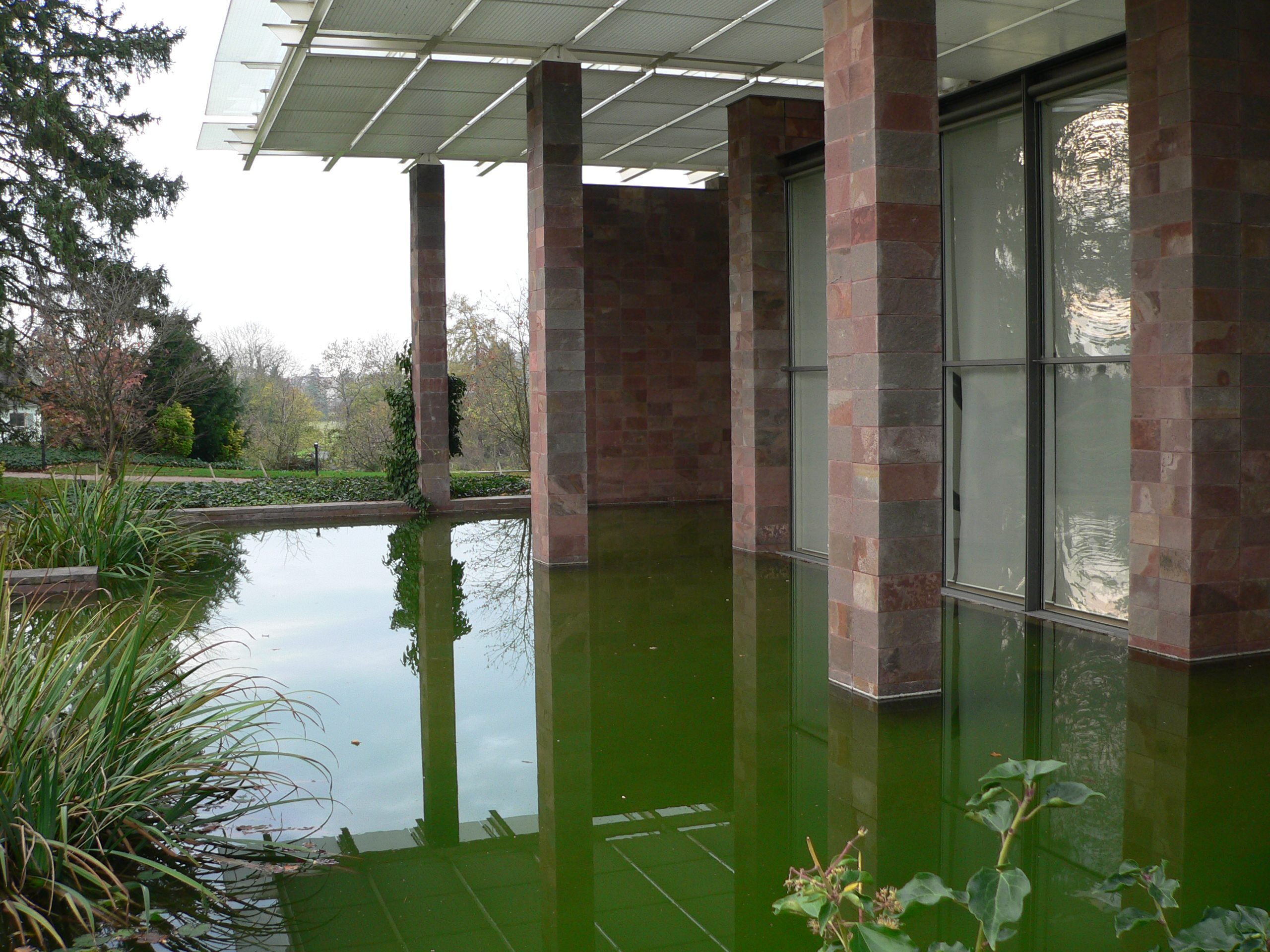 The Fondation Beyeler in Riehen near Basel